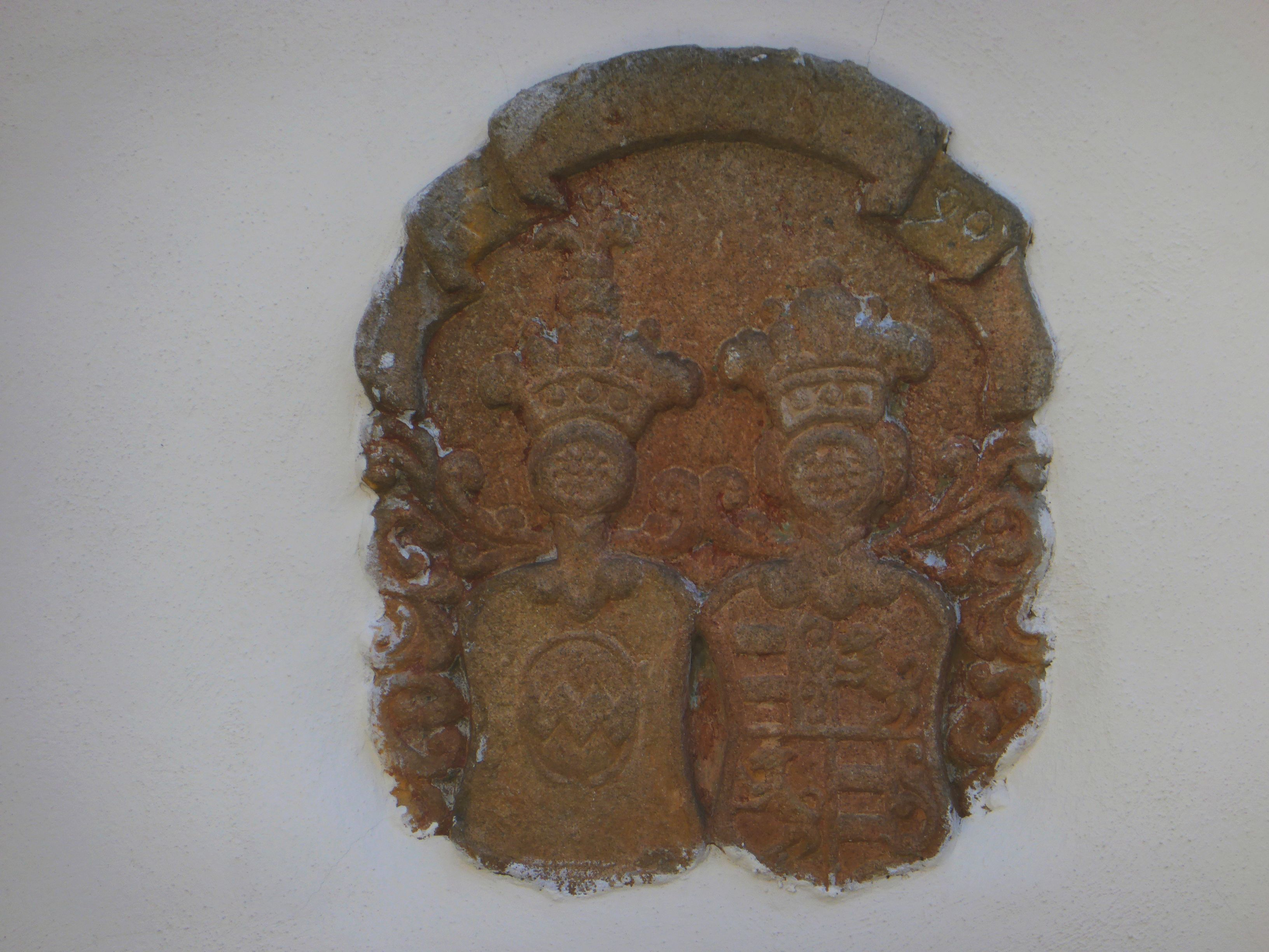 Wappen der Familie von Buttlar auf Schloss Penkhof